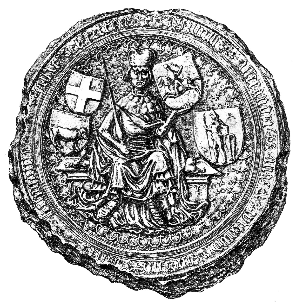 Portrait seal of Grand Duke of Lithuania Vytautas the Great.